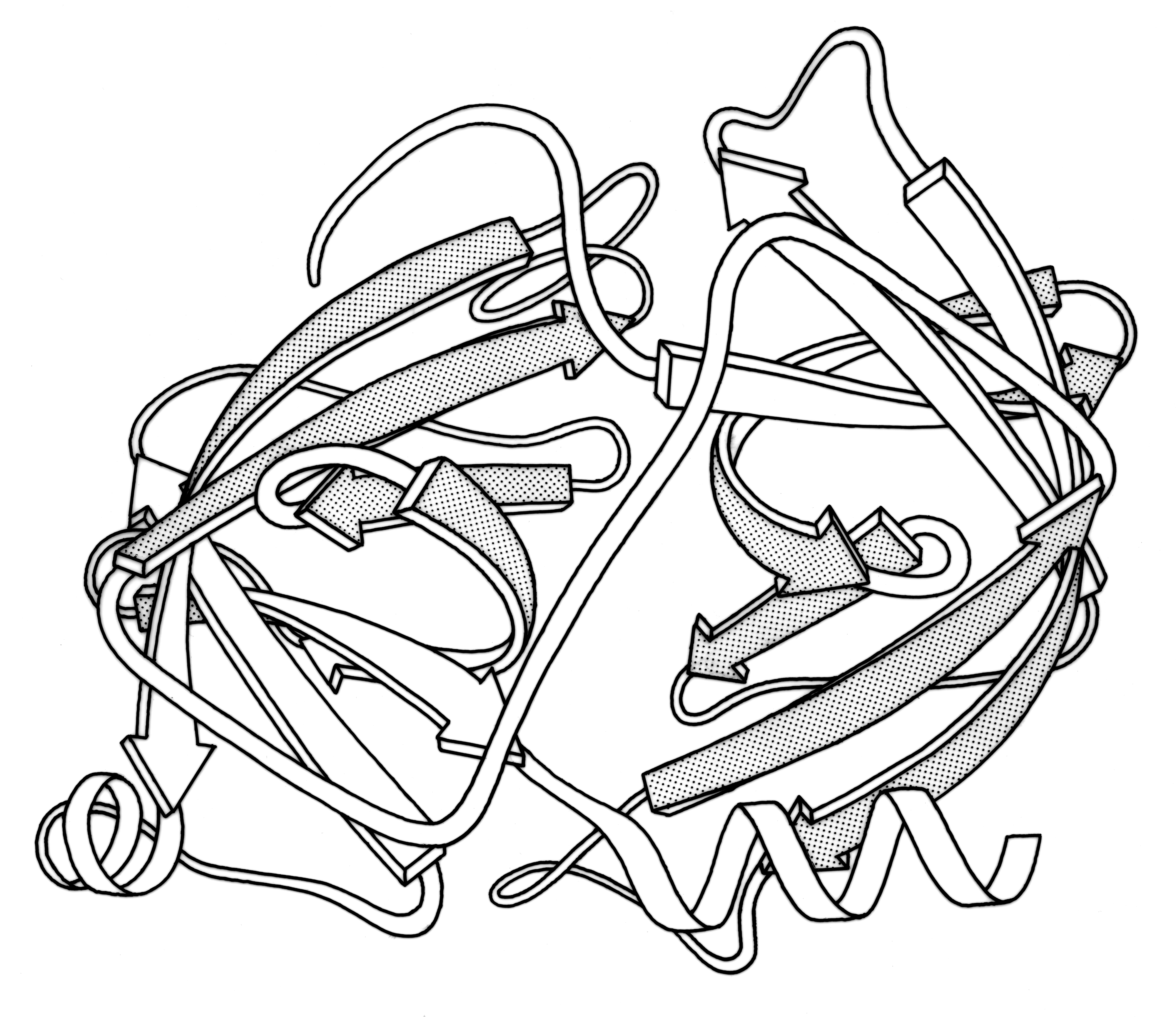 Elastase (Ser protease) ribbon diagram, hand-drawn from PDB file 1EST.